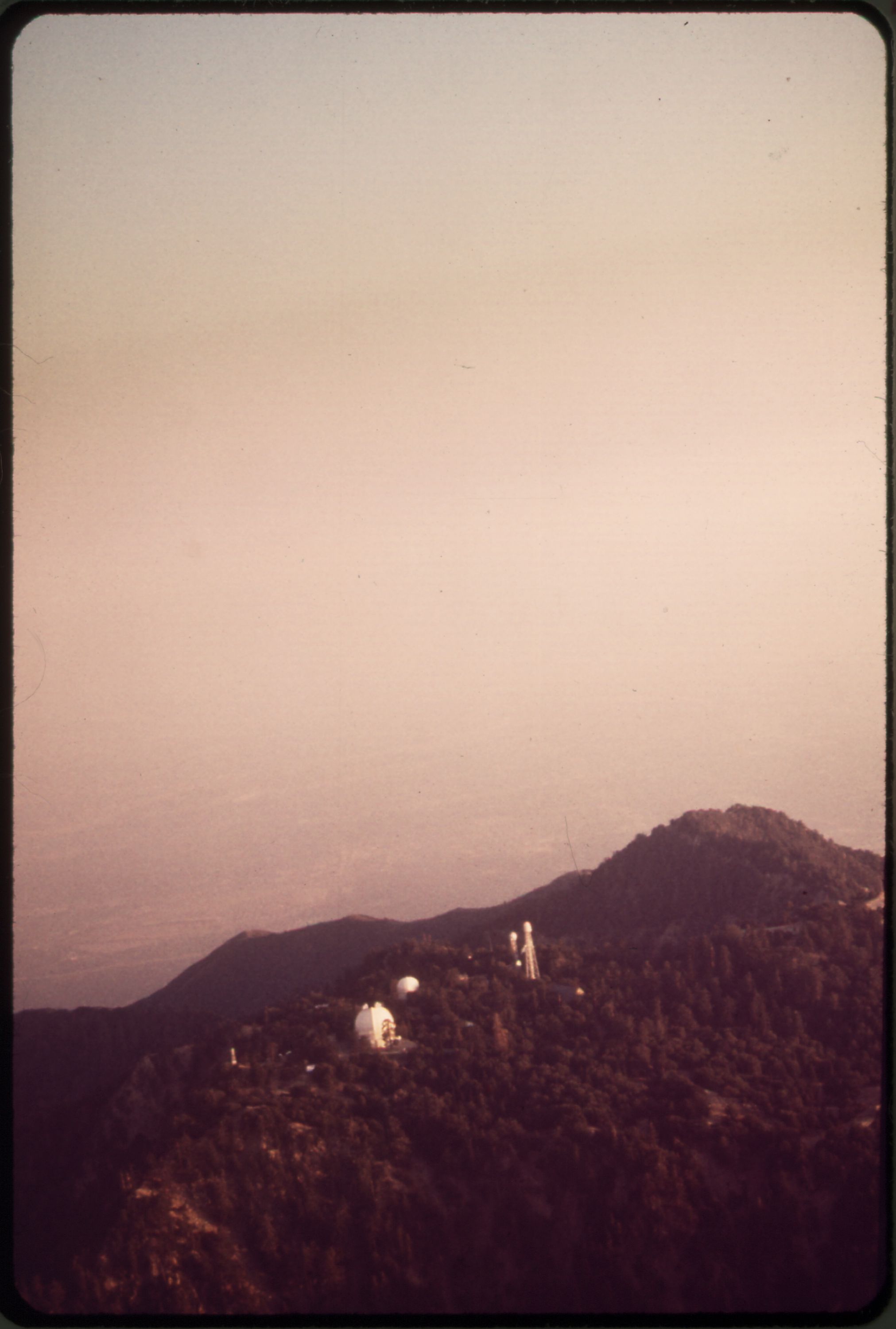 General notes: Mount Wilson in the San Gabriel Mountains, Angeles National Forest, Southern California.